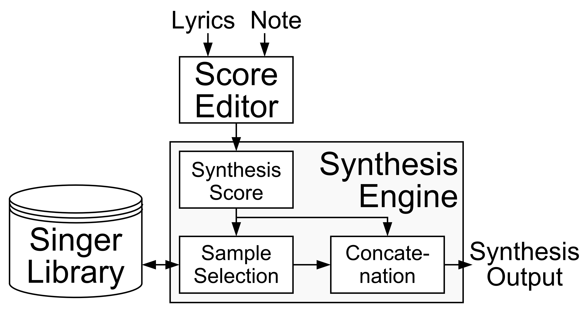 Vocaloid System This is a large-size pre-rendered image, to avoid the quality loss of original SVG image. You can link from thumbnail as following: File:Vocaloid System (large font) - en.220px.jpg|thumb|link=File:Vocaloid System (large font) - en.jpg|...